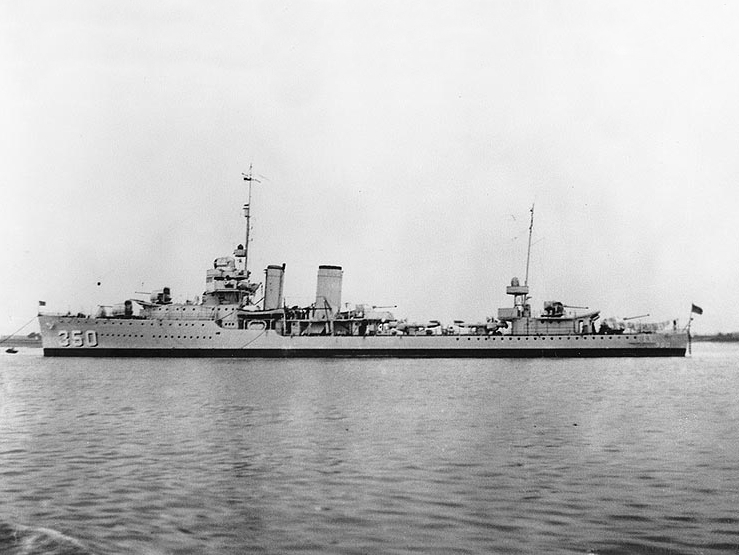 The U.S. Navy destroyer USS Hull (DD-350) moored in a harbour, circa 1935-1937.